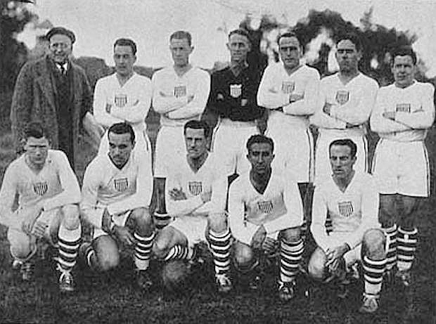 The US national association football team during the 1930 World Cup held at Uruguay. Back row: Robert Millar (coach), James Gallagher, Alexander Wood, James Douglas, George Moorhouse, Raphael Tracey, Andrew Auld. Front row: James Brown, William Gonsalves, Bertram Patenaude, Thomas Florie, Bartholomew McGhee.